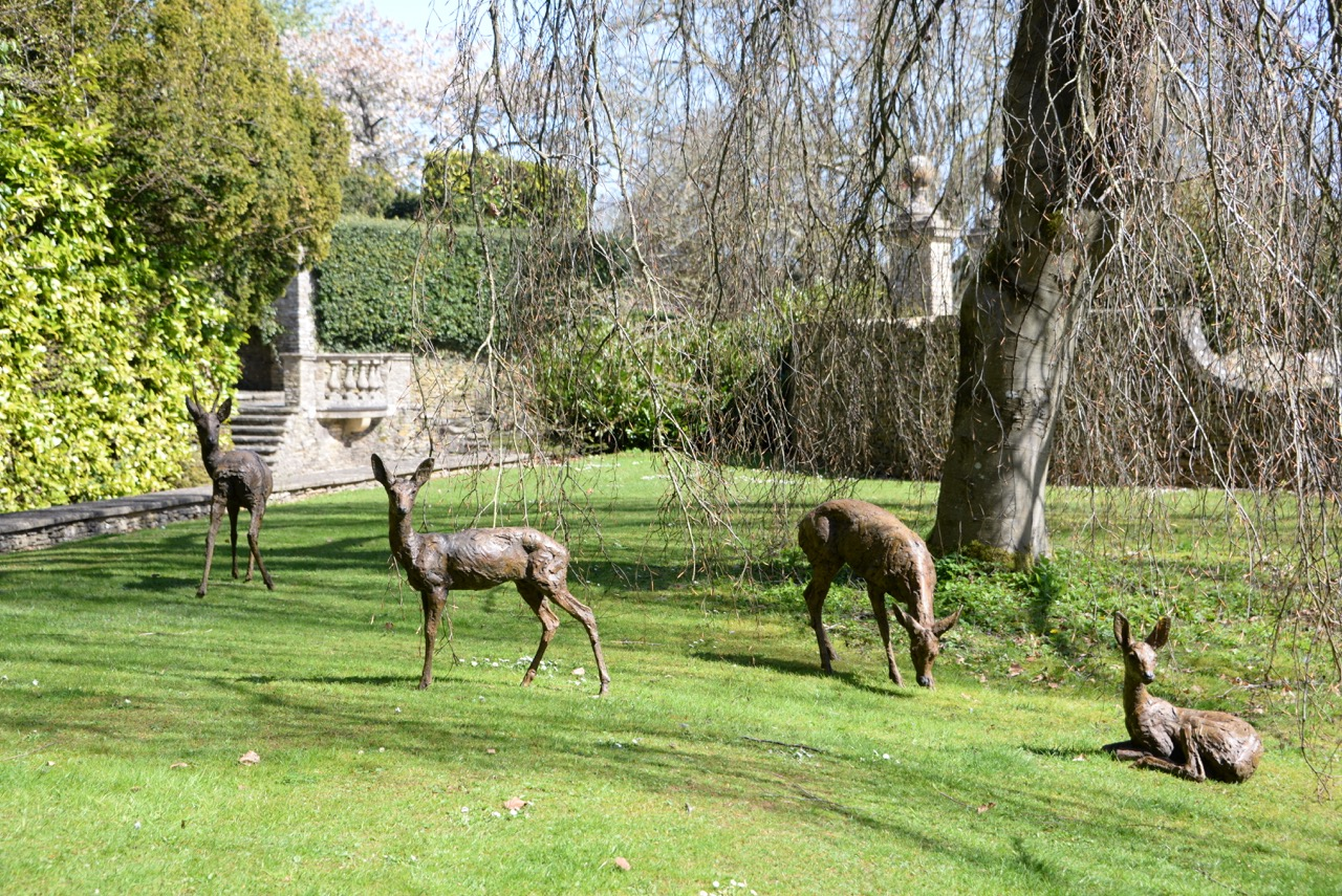 Bronze sculptures of Roe Deer by British sculptor Hamish Mackie, in a natural setting